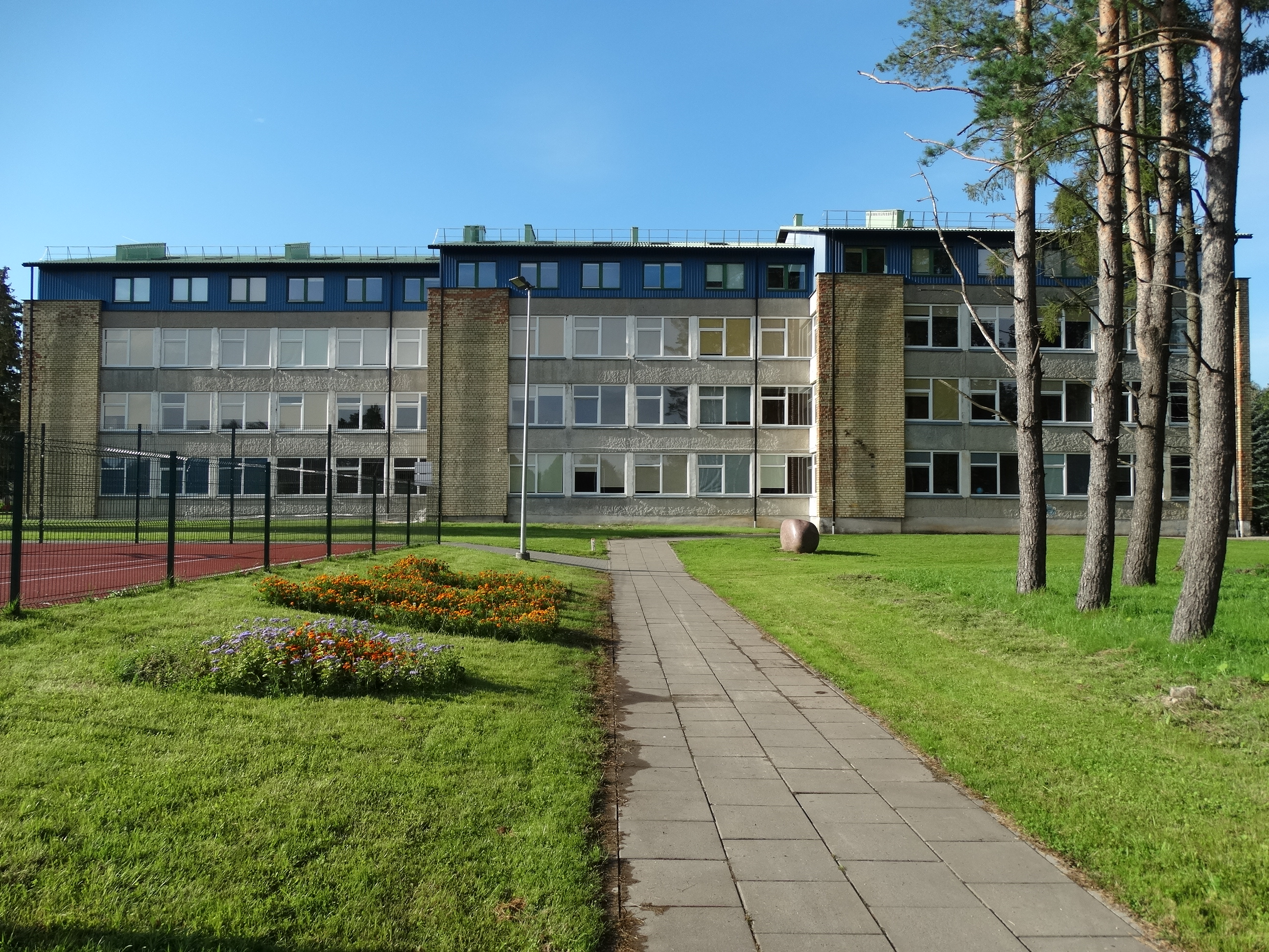 Ugnė Karvelis Gymnasium, Akademija, Kaunas district, Lithuania